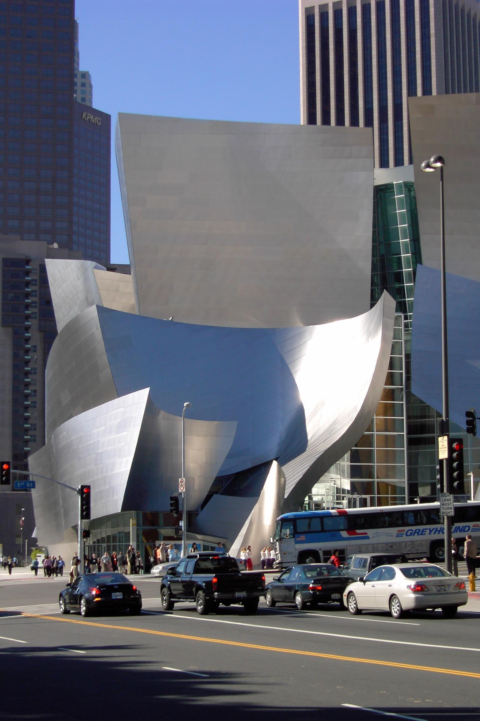 Walt Disney Concert Hall in Los Angeles. Taken by my wife on her recent trip to the American Choral Directors Conference.